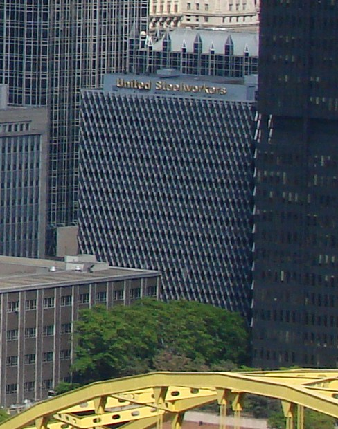 The United Steelworkers of America building in Pittsburgh.